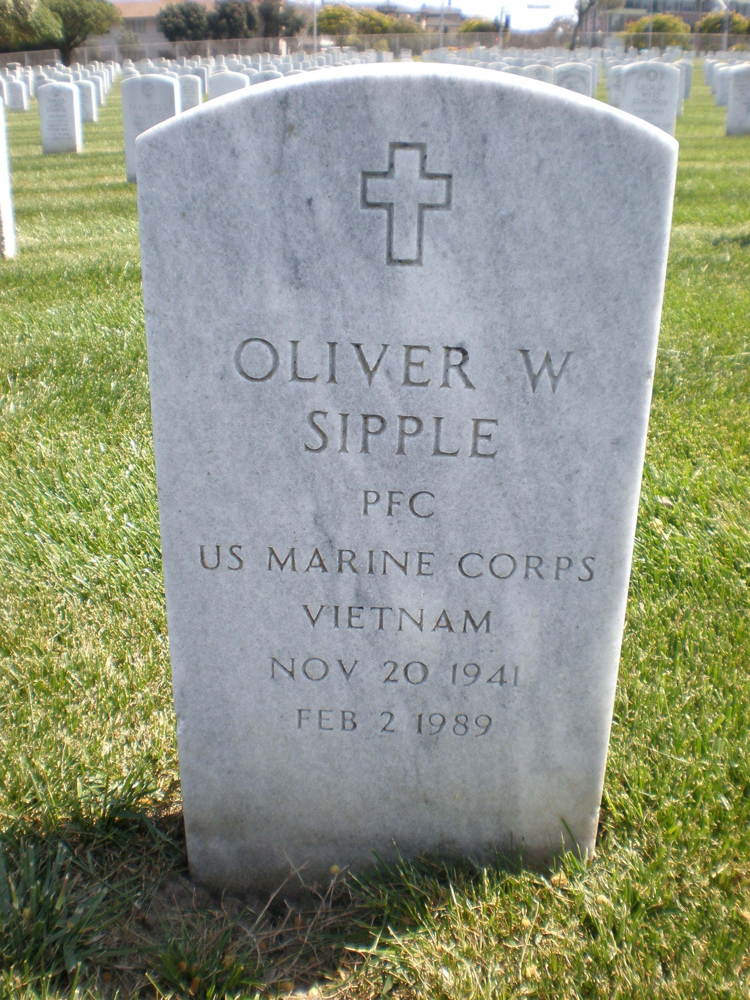 The headstone of Oliver W. Sipple in Golden Gate National Cemetery in San Bruno, California. Sipple thwarted an assassination attempt on President Gerald Ford by Sara Jane Moore on September 22, 1975 in San Francisco.